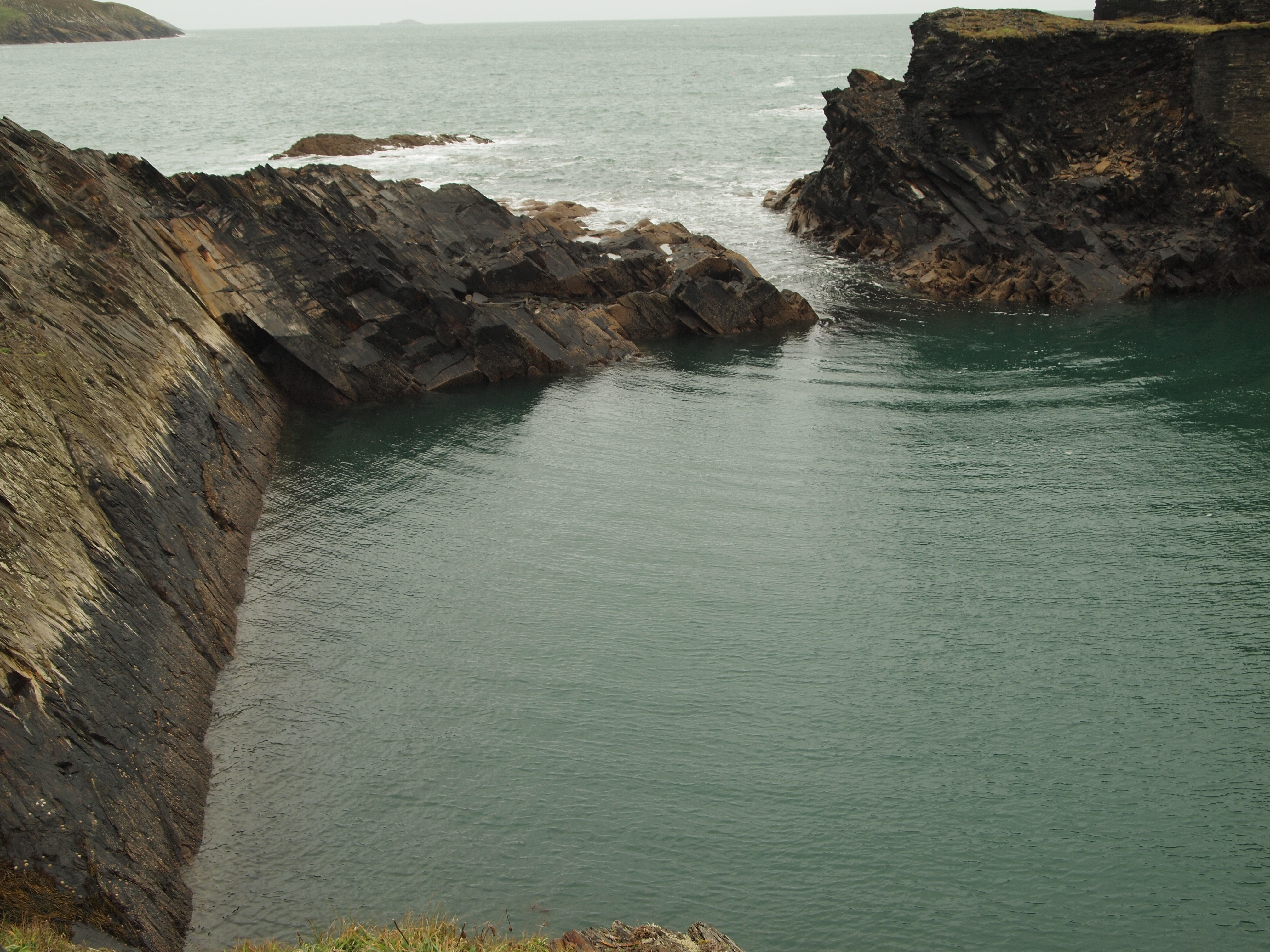 The Blue Lagoon, Abereiddy, Pembrokeshire, Wales. A disused coastal slate quarry with a narrow entrance to the sea. Single-slit wave diffraction and reflection patterns can be seen on the water in the lagoon.